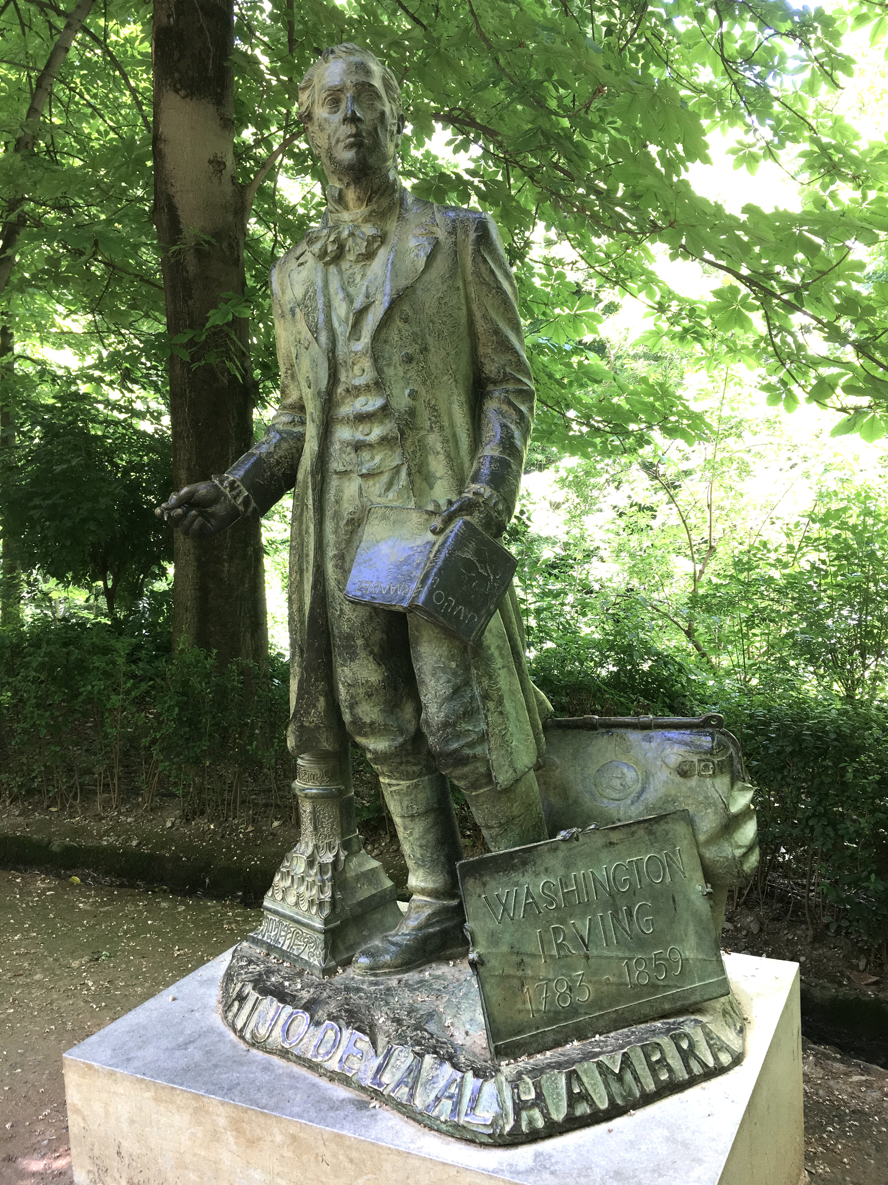 Monument to Washington Irving in the Alhambra in Granada, Spain